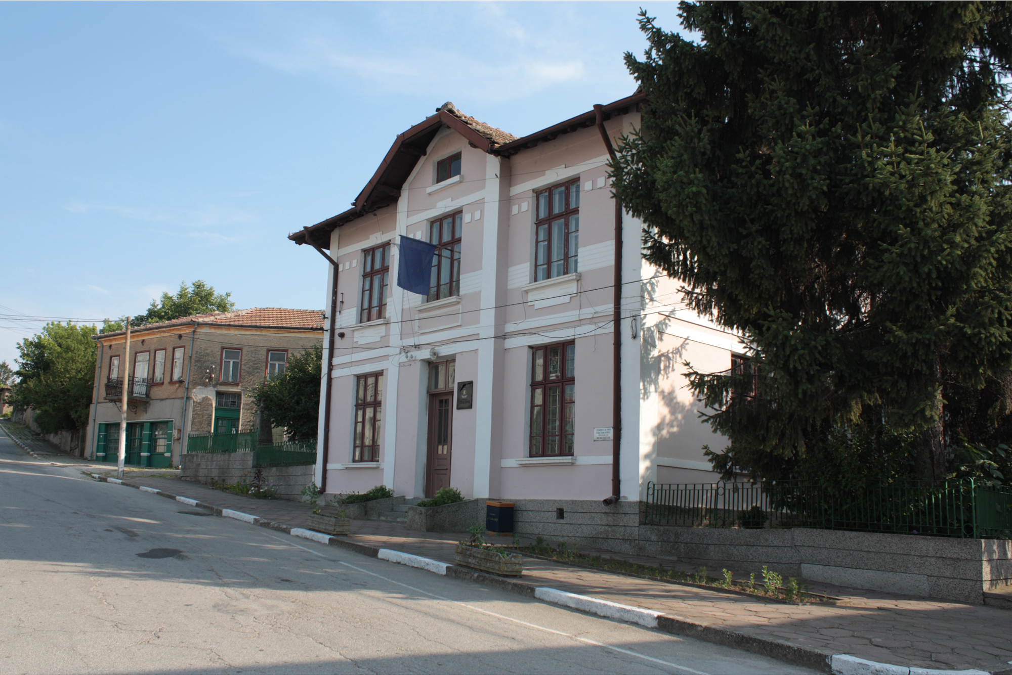 Municipality office of Tseroca Koria village, Bulgaria